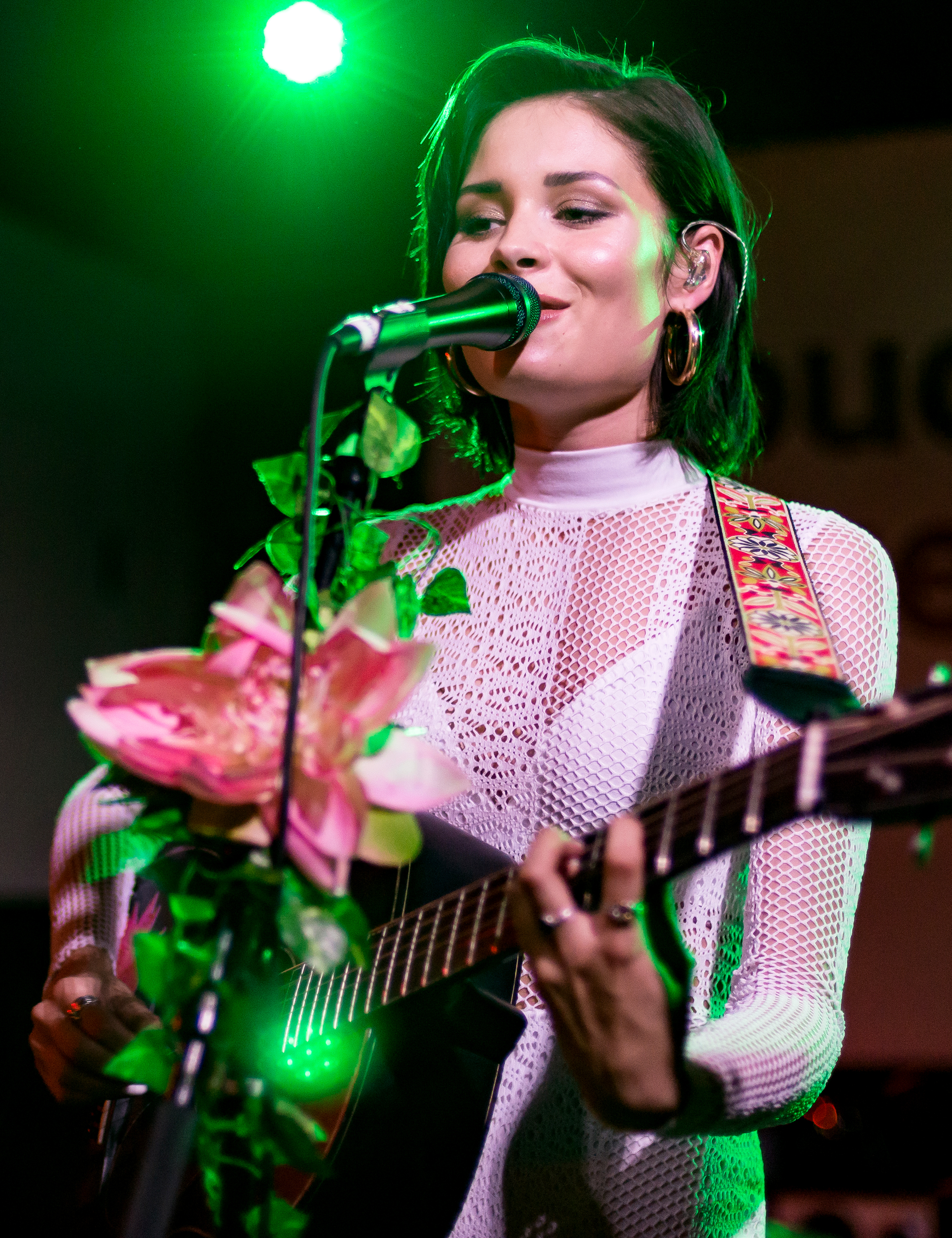 Nina Nesbitt, Charlotte Lawrence, and Sasha Sloan performing live at the Spotify Sessions "Louder Together" event at Resident DTLA in Los Angeles, California, on Saturday, March 24, 2018.